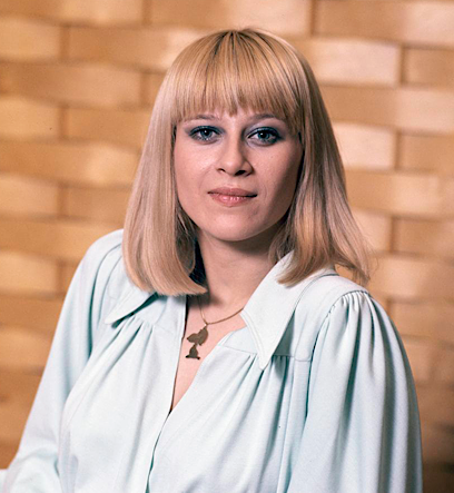 Portrait of Catherine Ferry at the day of the Eurovision Song Contest 1976